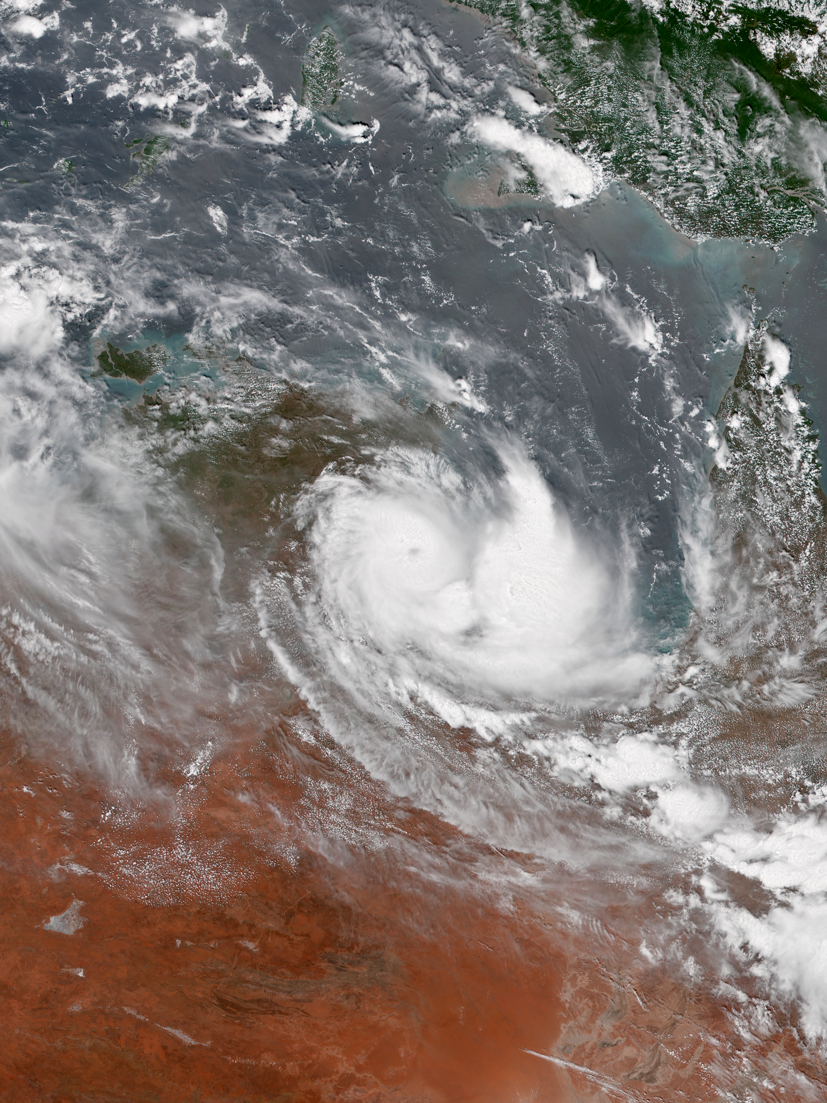 Severe Tropical Cyclone Owen at peak intensity over the southwestern coast of the Gulf of Carpentaria on 13 December 2018.